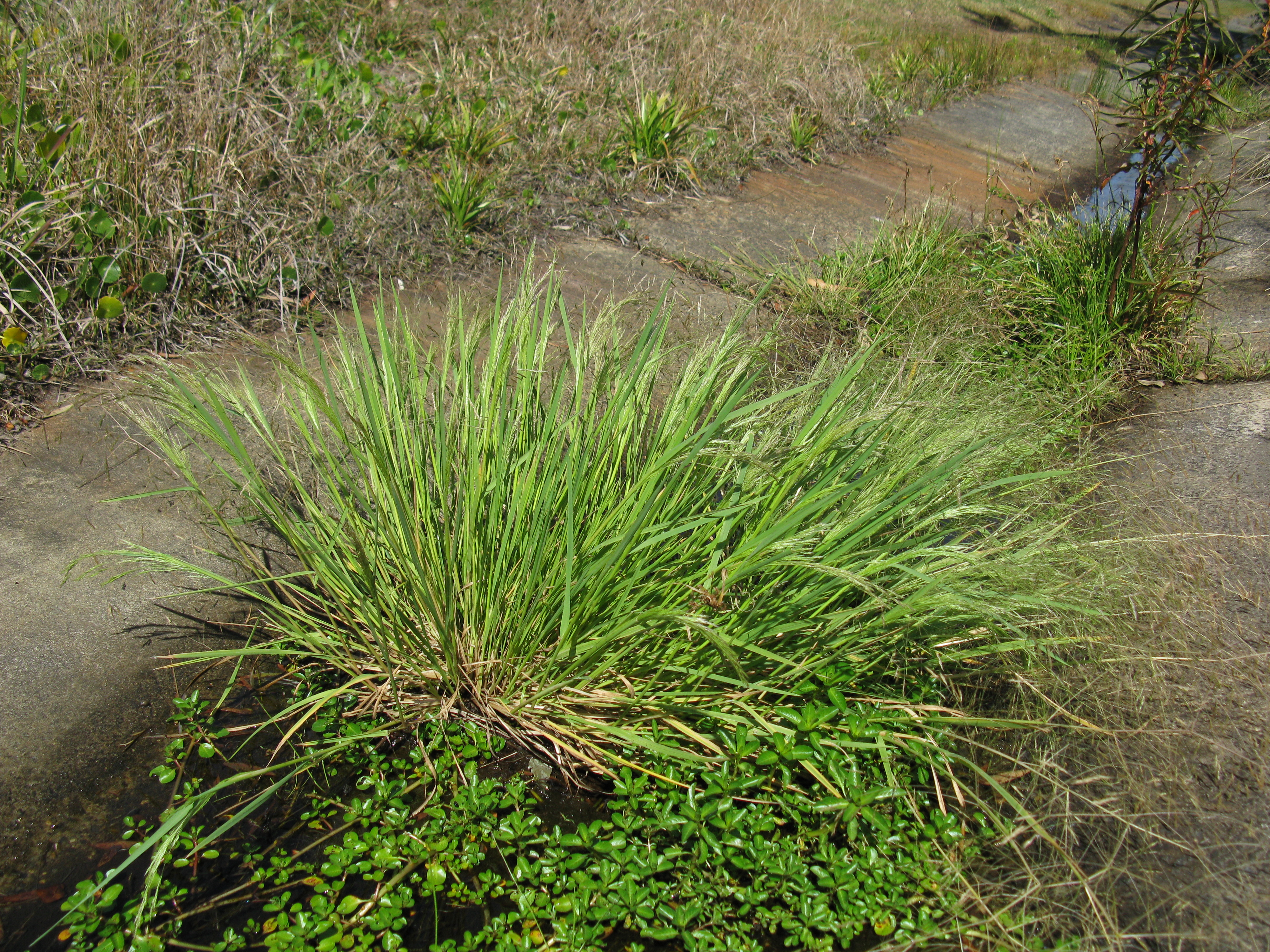 Native, cool-season, annual or perennial, erect, slender and tufted grass up to 70 cm tall. Upper leaf surfaces are ribbed and ligules are membranous (to 3.5 mm long). Found in wetter areas where there is reduced ground cover (e.g. drainage lines and swamp edges) as it has low drought tolerance and competitiveness. Native biodiversity. Eaten by stock, but produces little feed and can occasionally be toxic in large quantities. Moderate feed value when young, but quickly becomes stemmy and its quality deteriorates. Abundance is favoured by flooding and grazing practices that promote bare ground during its main germination period of autumn to early winter.